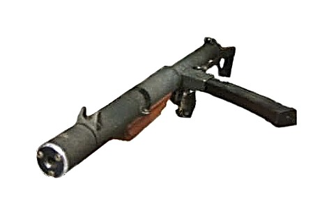 An Argentine 9mm L34A1 Sterling Silenced Sub Machine Gun at the Imperial War Museum. It has a wooden grip and the blur streaking across the magazine is glare from the display cabinet glass.